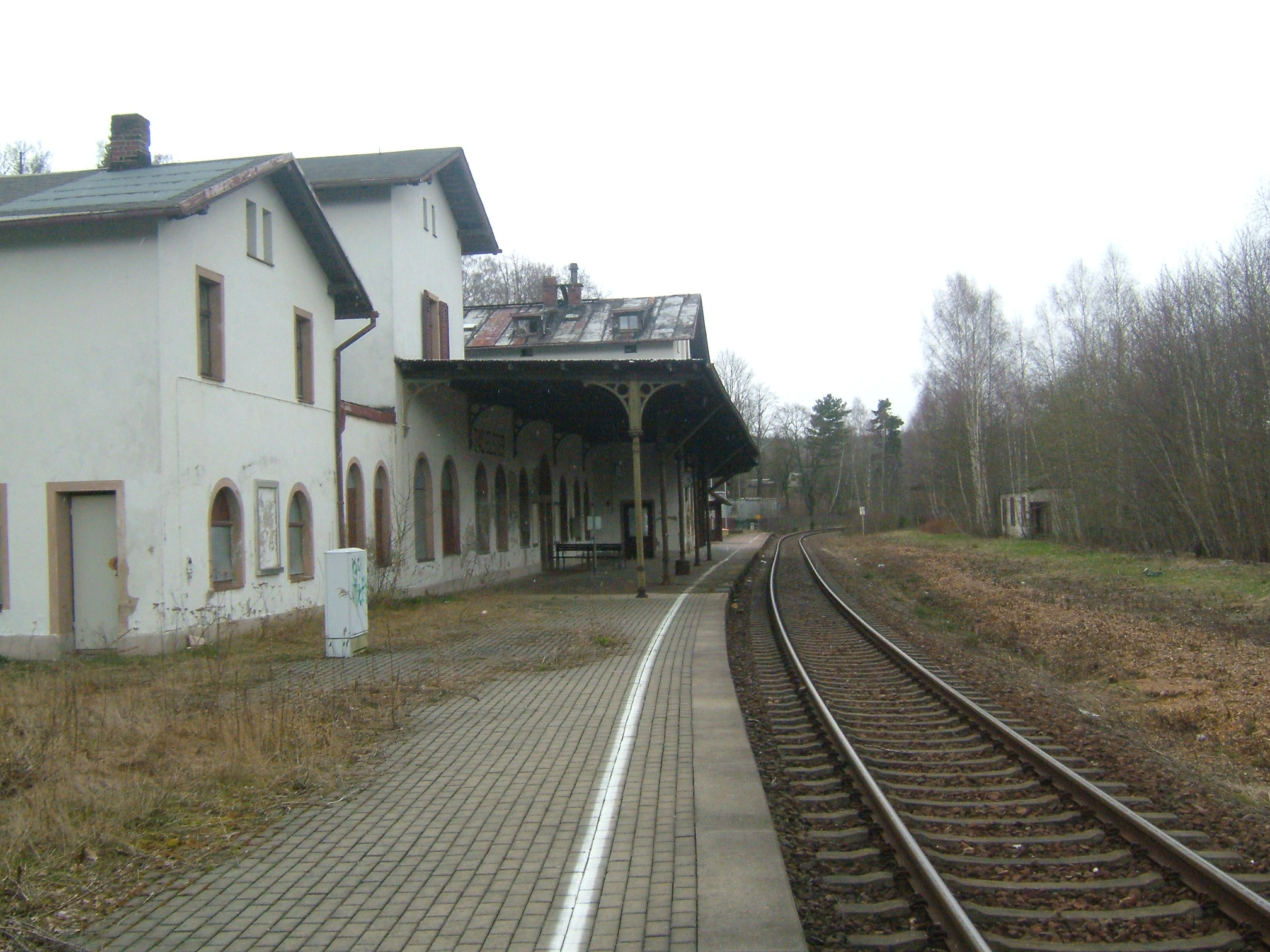 Bad Elster, Saxony, Germany in April 2008. Bad Elster station which lies 2 km from the town on the Plauen-Cheb Line and is now served by the Vogtlandbahn.